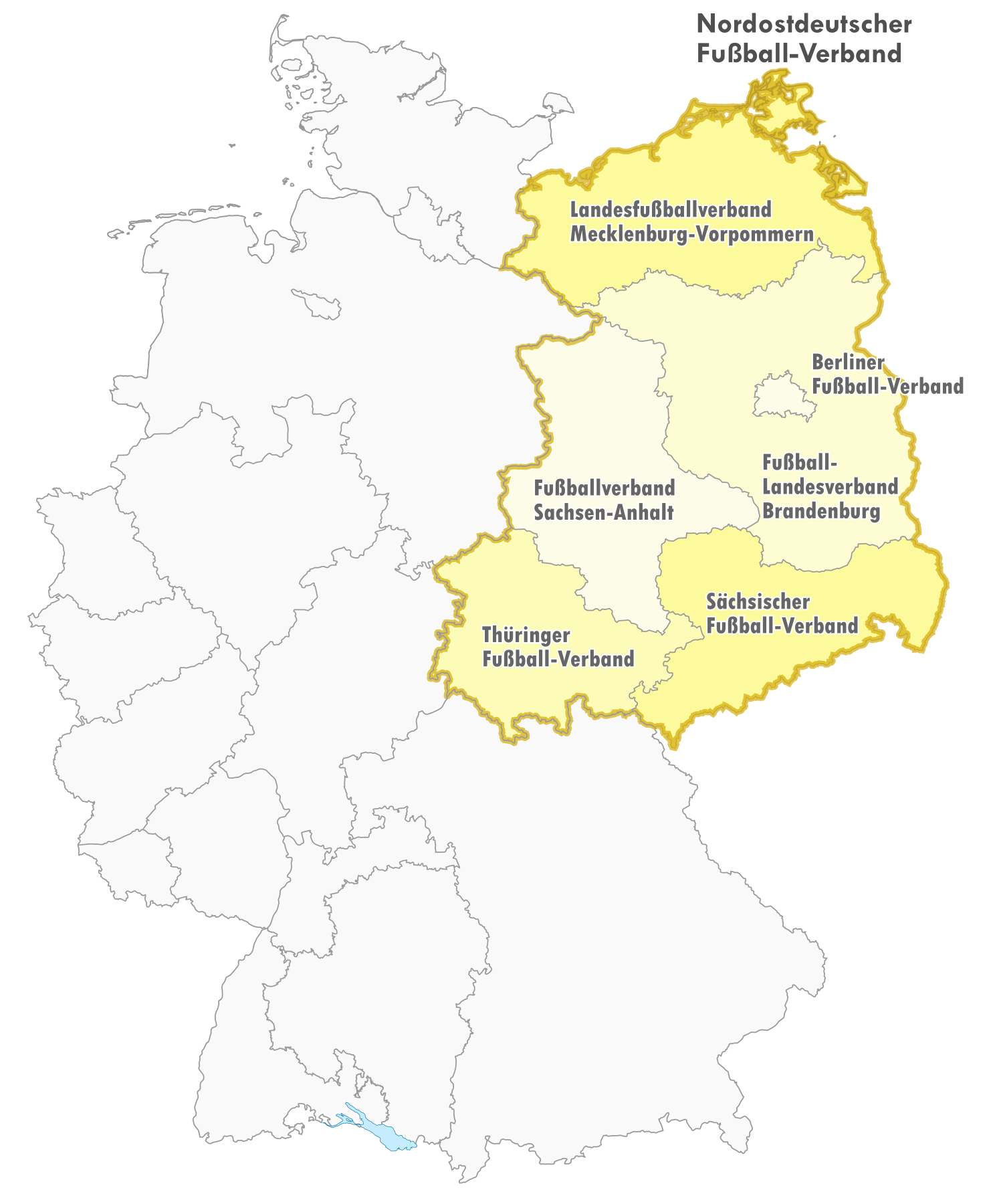 Map of regional soccer association of Nordostdeutschland, Germany